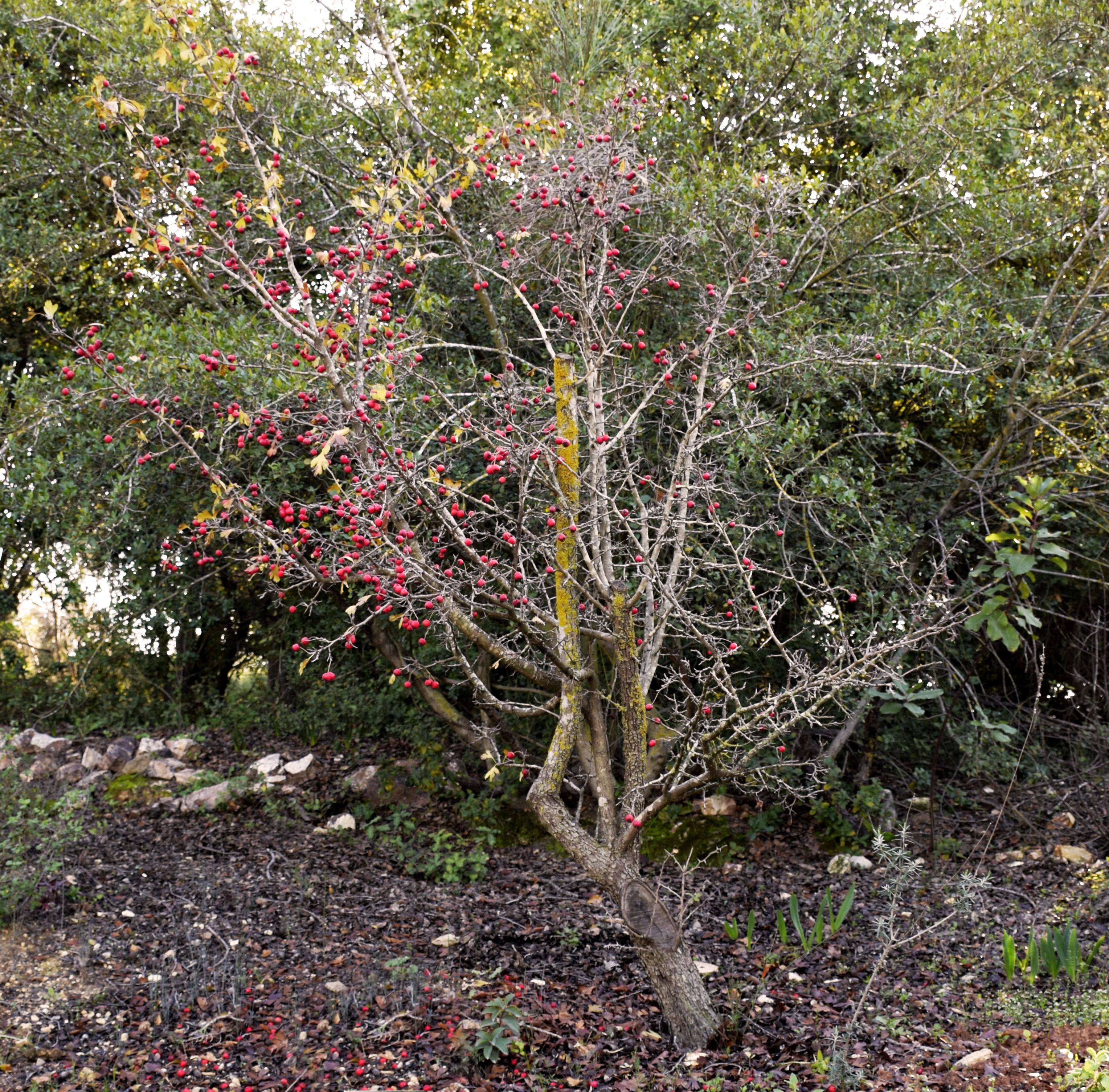 Crataegus azarolus